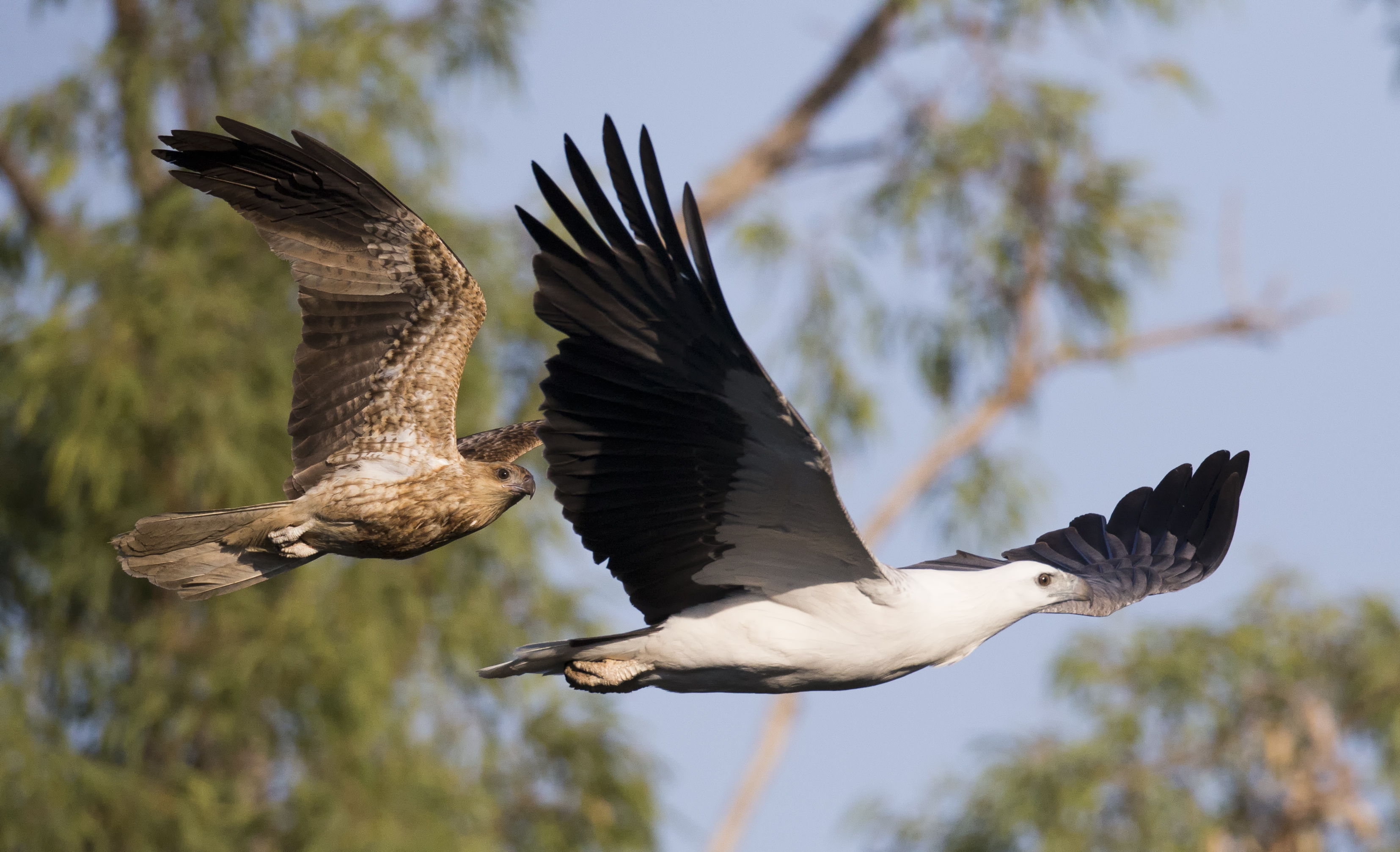 The never ending war. When the whistling kites are nesting, they drive the sea eagles away from the waterhole. But the eagles always return. And on it goes, there are no winners.